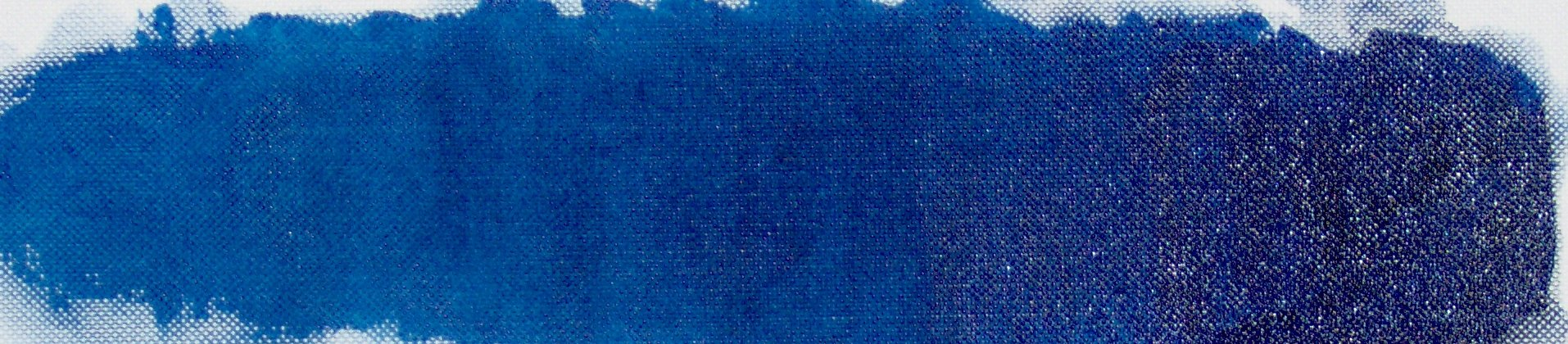 Prussian blue oil paint thinned with turpentine.